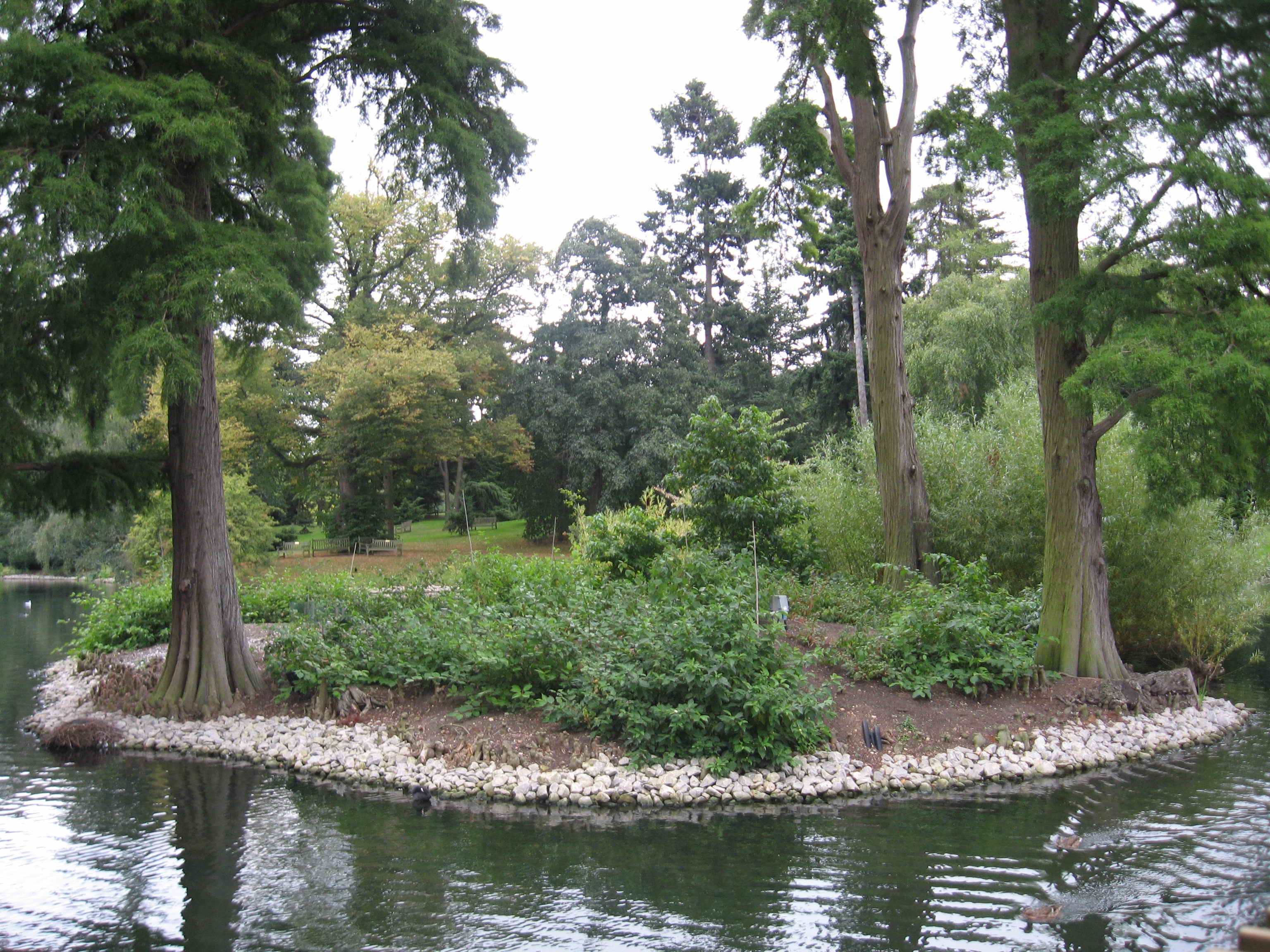 Lake Kew and Sackler Bridge